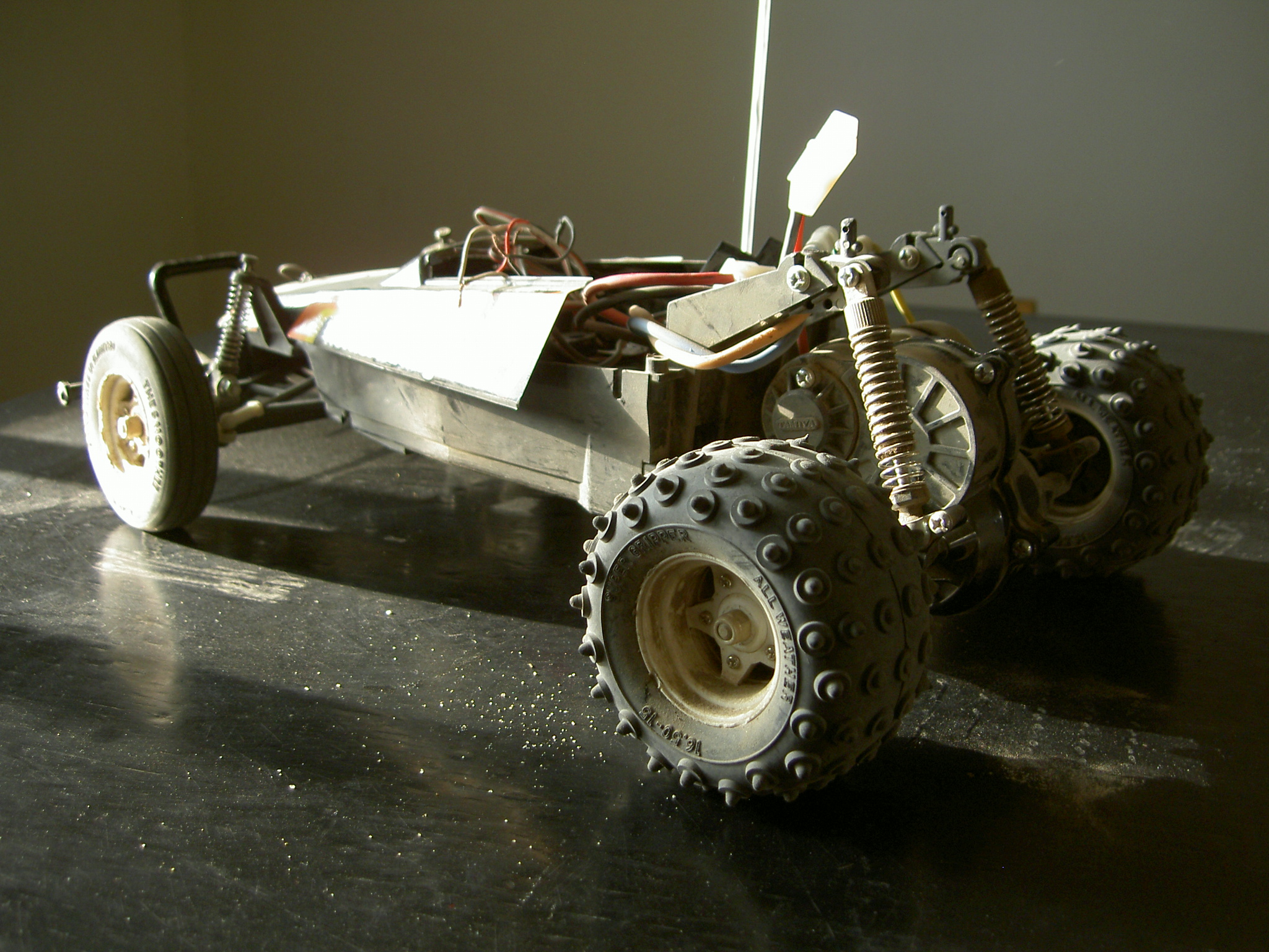 Radio controlled Tamiya Hornet